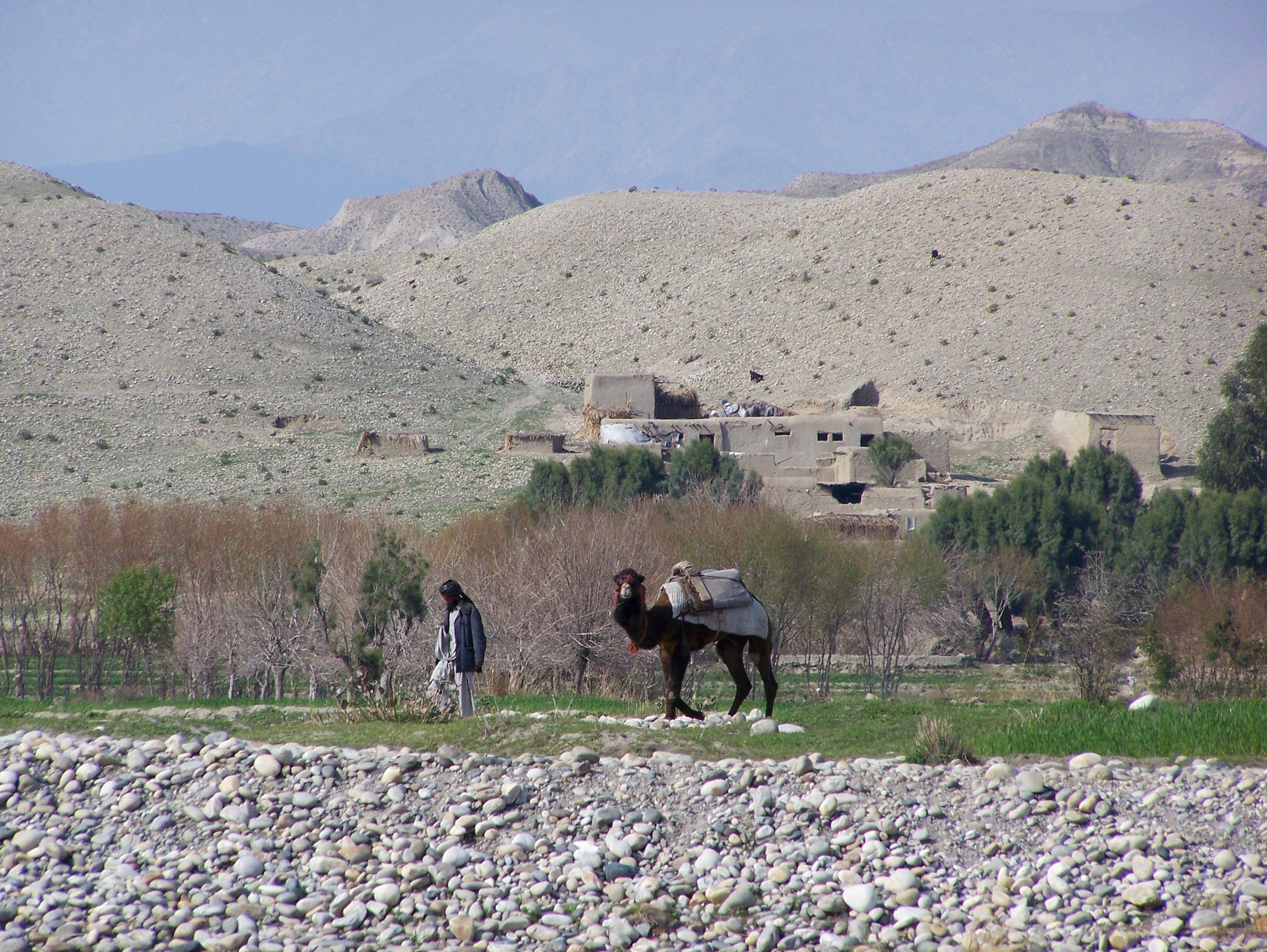 Farm at the Kabul River, Afghanistan